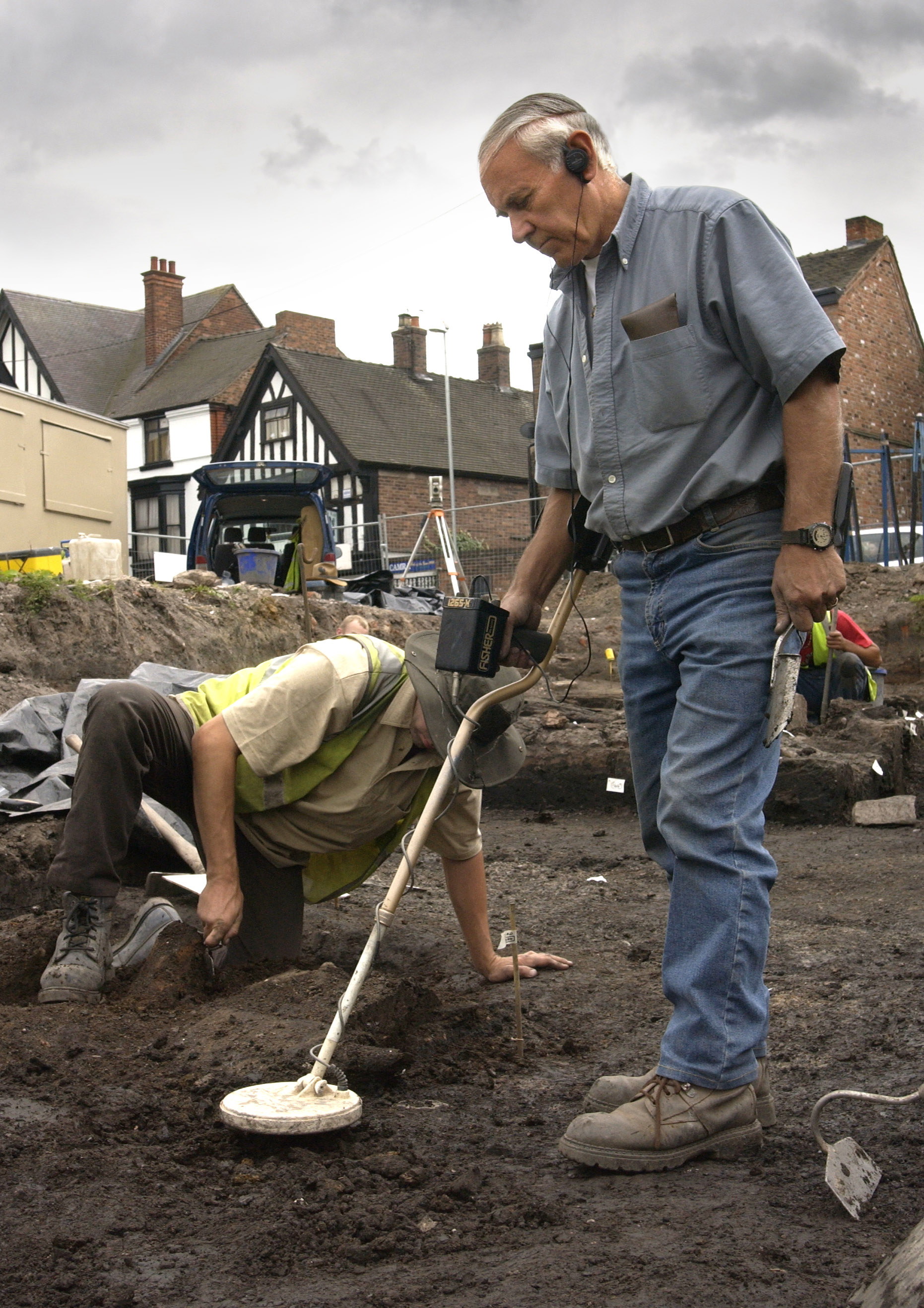 Metal detecting in progress on a Time Team dig This was added from the site called under the name portableantiquities. See source for details.